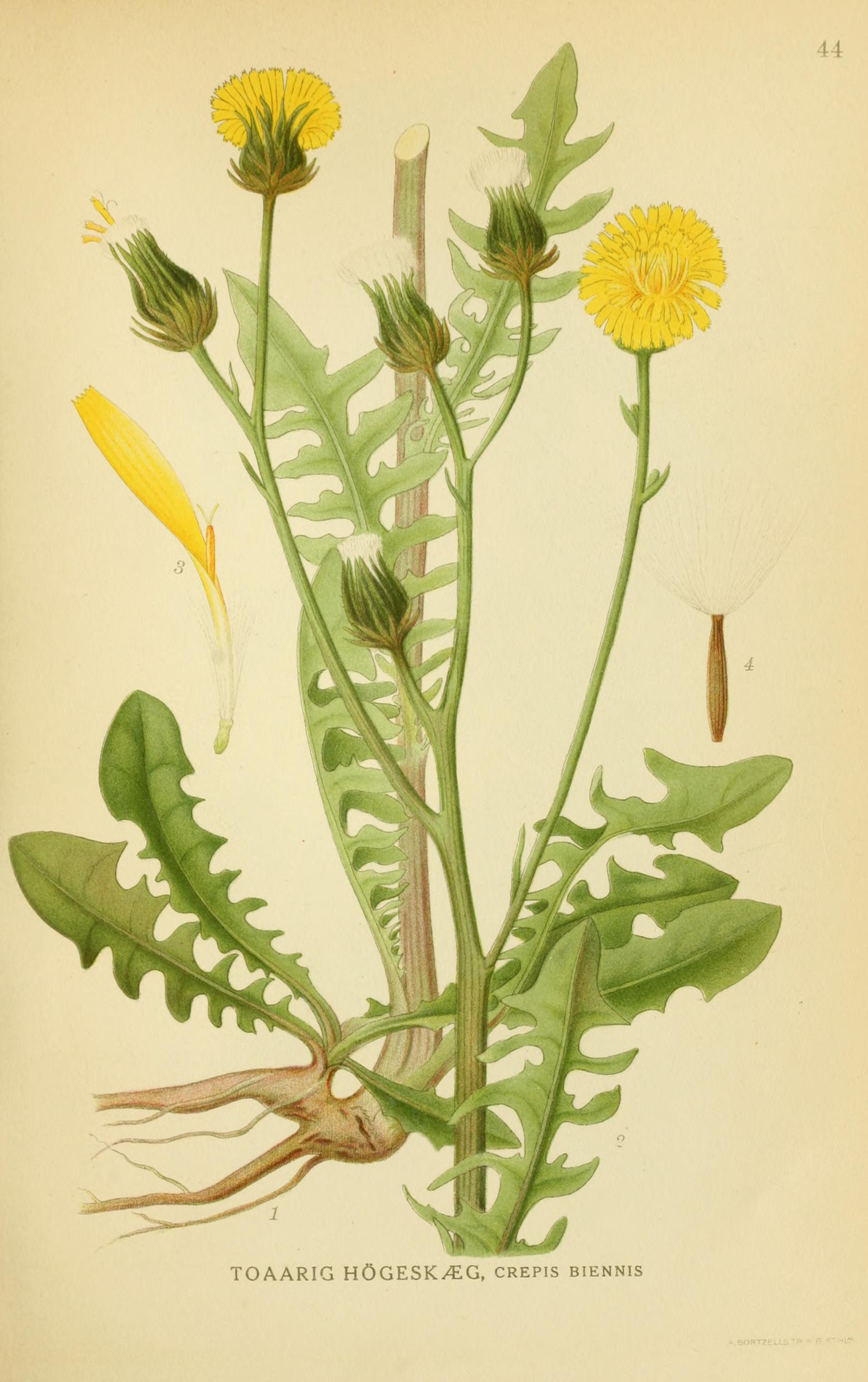 Title: Billeder af nordens flora Year: 1917 (1910s) Authors: Mentz, August, 1867-1944 Ostenfeld, C. H. (Carl Hansen), 1873-1931 Subjects: Plants Plants Plants Publisher: København, G.E.C. Gad's forlag Text Appearing Before Image: HAARET HOGEURT, hieracium pilosella A.BORTZELLSTR.A B. Text Appearing After Image: 44 ^ ■ ii .r TOAARIG HOGESKÆG, crepis biennis 45